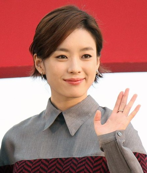 Han Hyo-joo at BIFF 2013